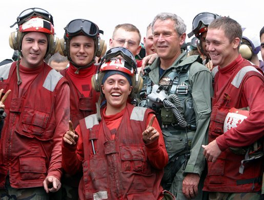 President George W. Bush poses with flight deck crew of the USS Abraham Lincoln May 1, 2003. White House photo by Paul Morse